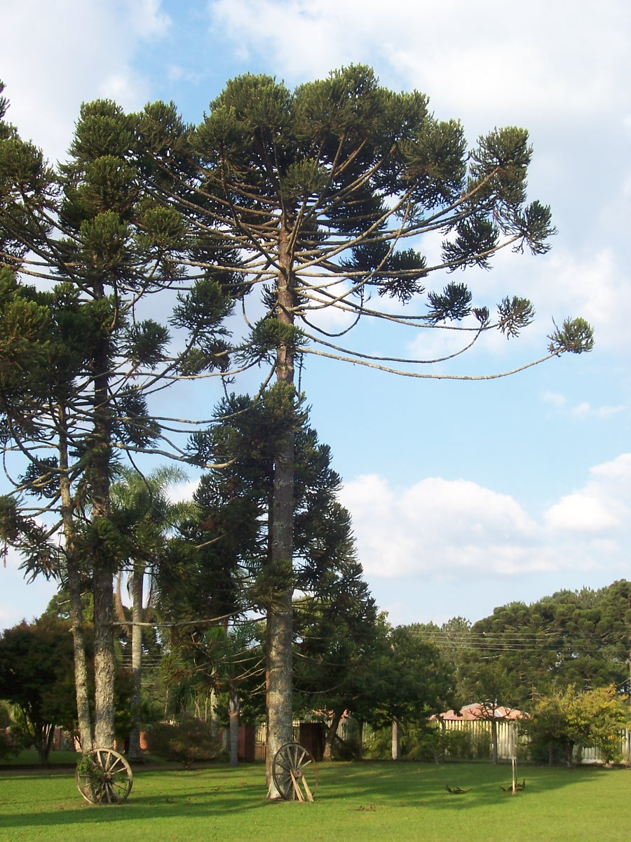 Auracaria angustifolia. Piraquara, Paraná, Brasil